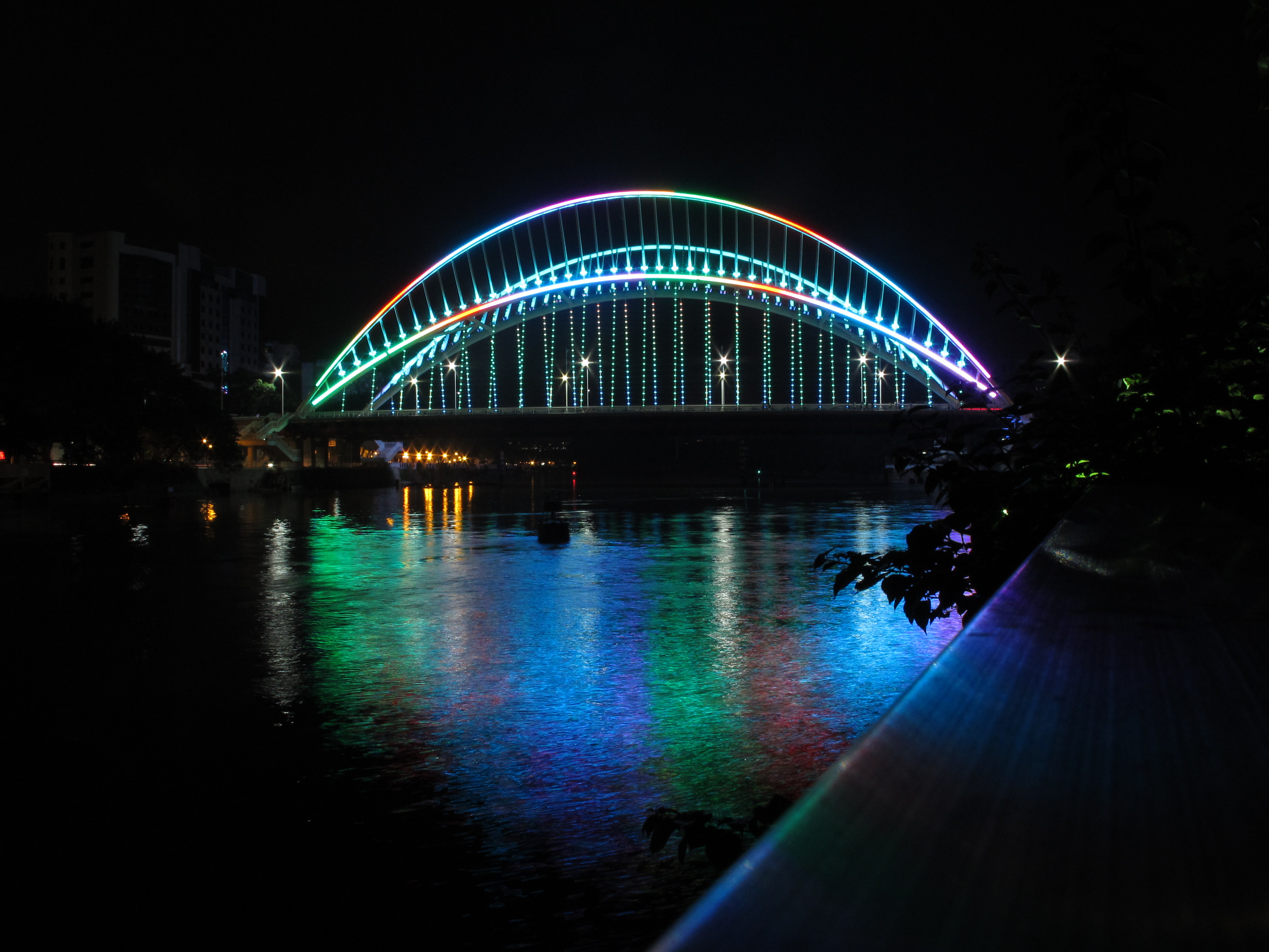 Pengjiang Bridge over the Jiangmen River in Jiangmen, China